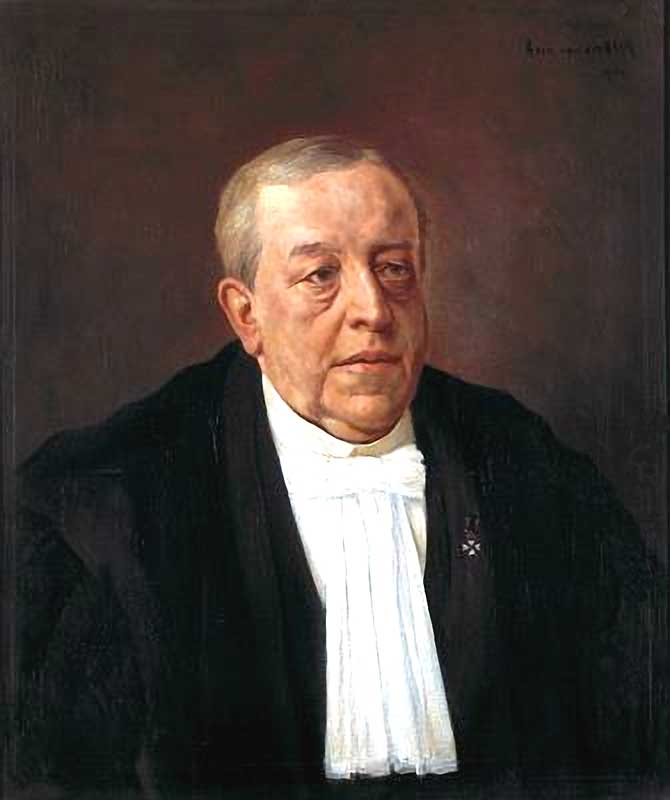 Cornelis Hubertus Carolus Grinwis (1831-1899) Physicist and Mathematician from the Netherlands